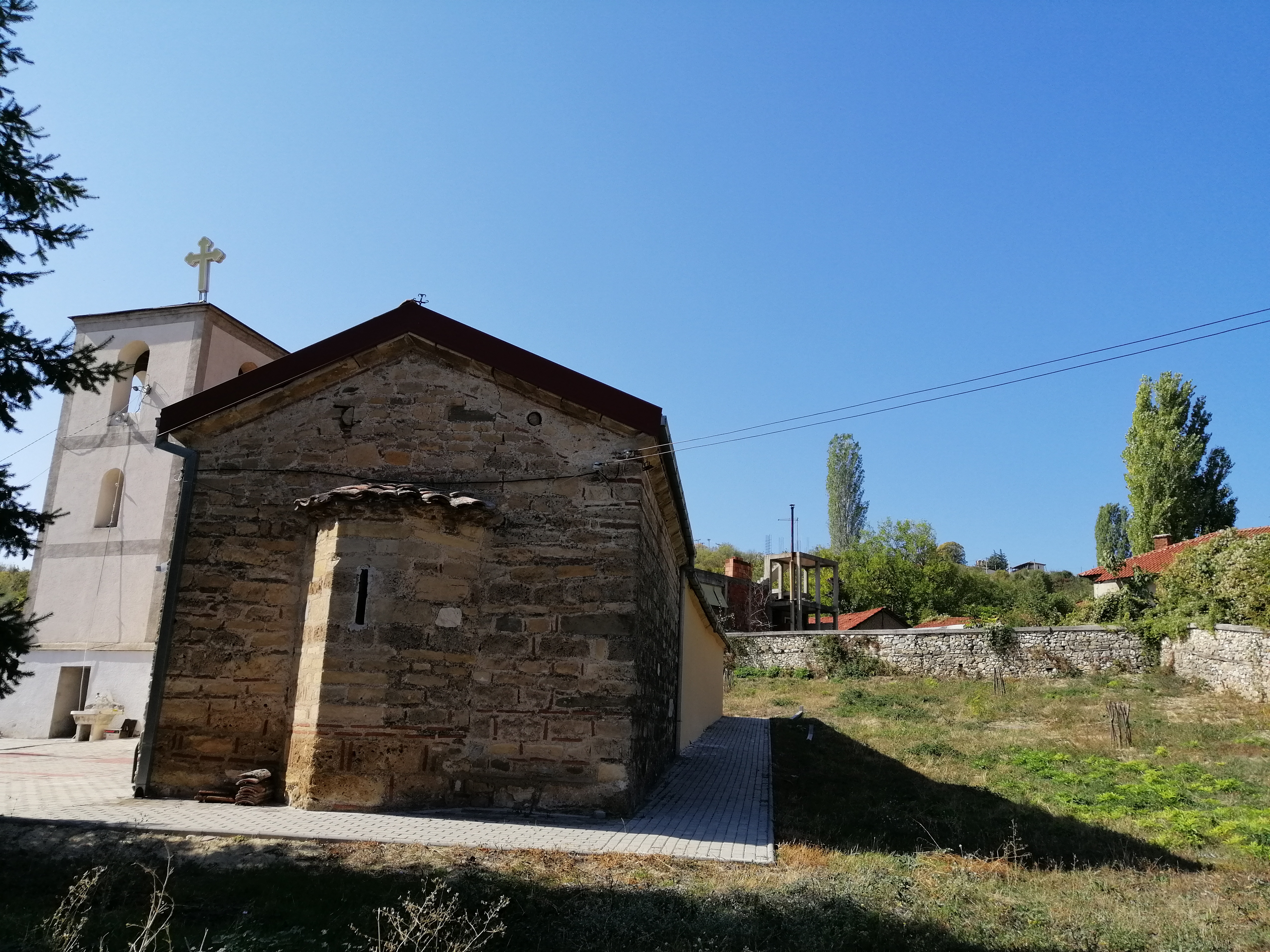 View of the St. George's Church in the village Banjane